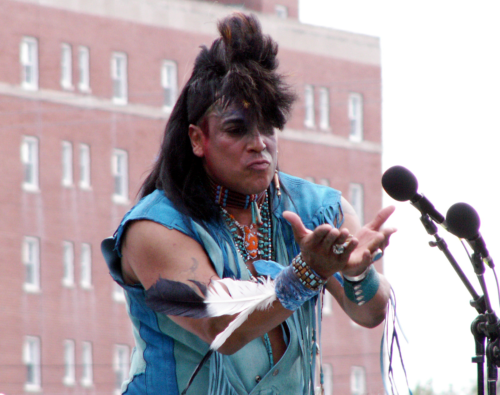 Indian from the Village People at Asbury Park, New Jersey June 3, 2006